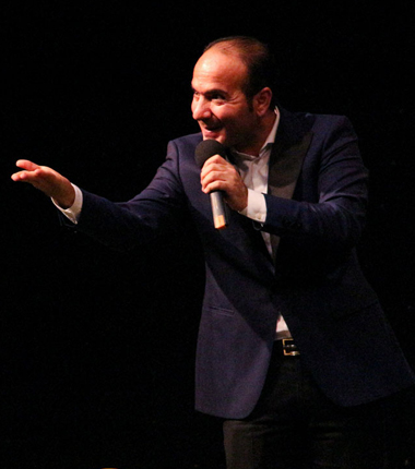 Hassan Reyvandi, Iranian stand-up comedian, at the 3rd conference of left-handers in Tehran, Iran.